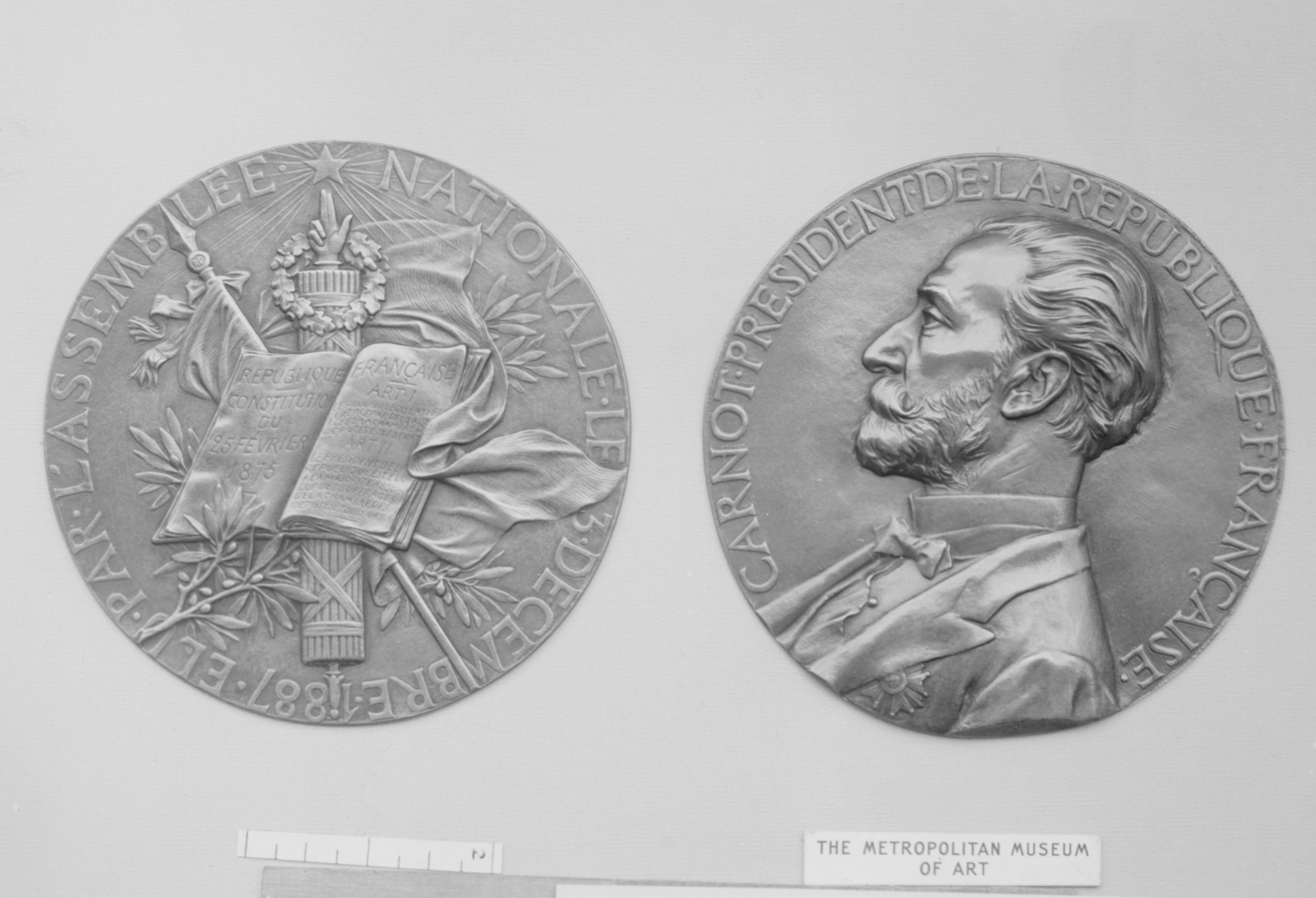 French; Medallion; Medals and Plaquettes